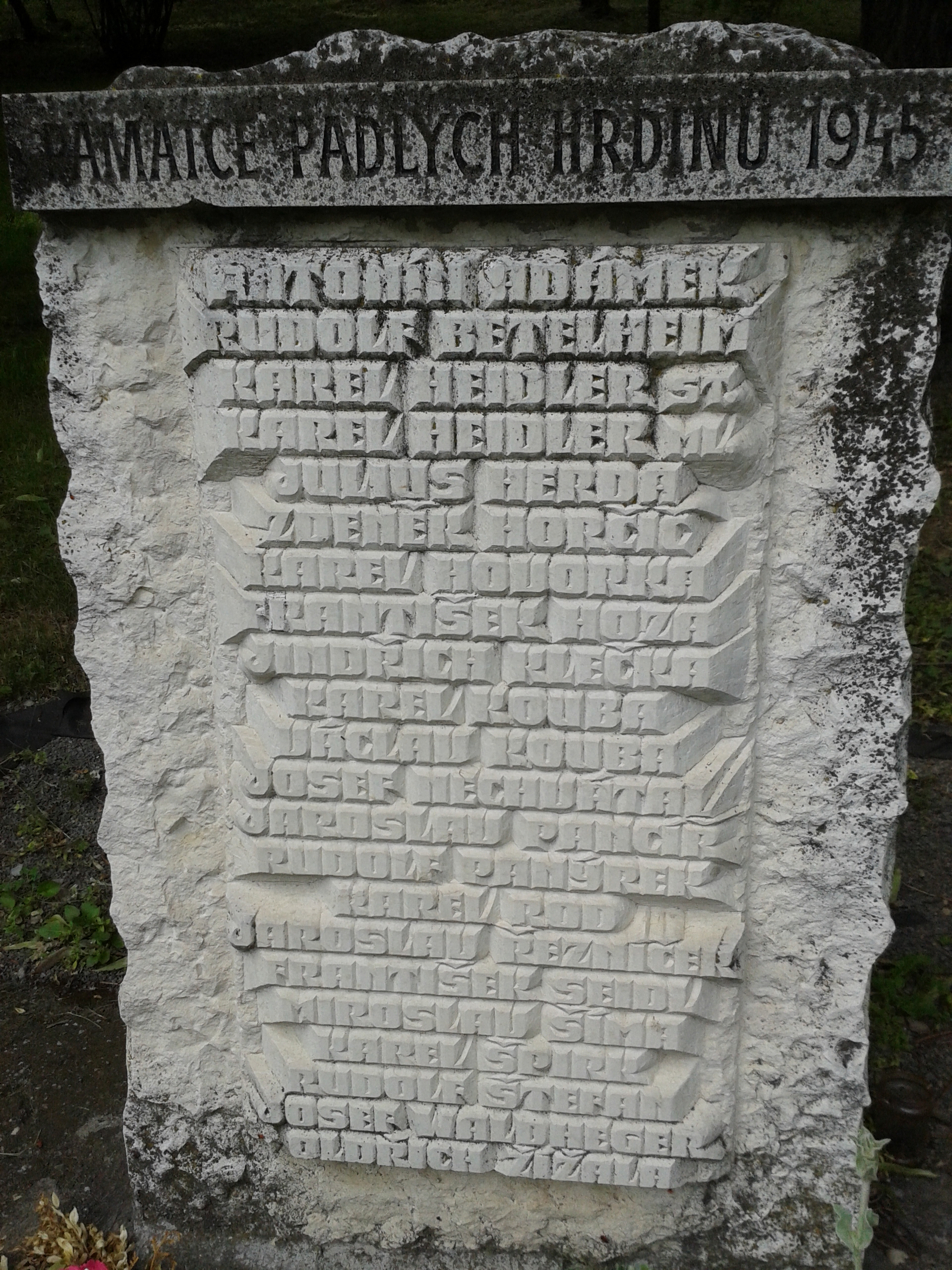 Monument to victims of the Second World War who were citizens of Prague - Hodkovičky is located in a small park between two streets: Údolní and Psohlavců. Memorial place is accessible from the street Údolní. The monument is made of one roughly hewn stone block with names of fallen. The names are shown by using of atypical embossed lettering. At the top of monument there is a plaque with the title: "In memory of fallen heroes of 1945".